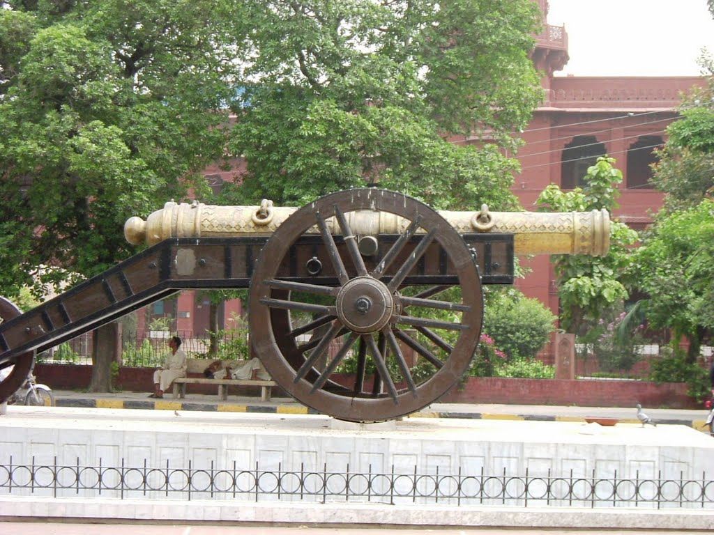 Zamzam gun